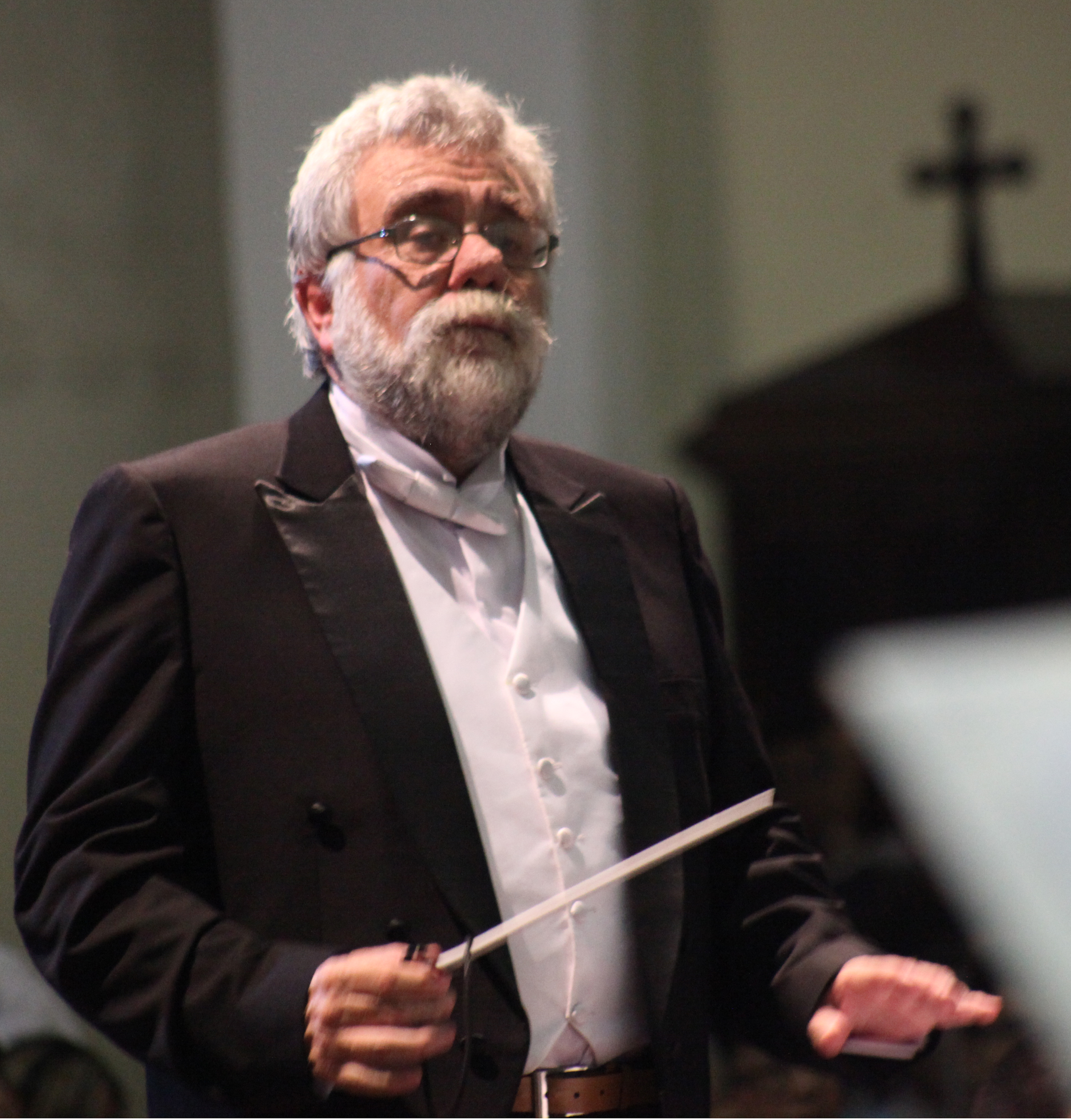 José Quezada Macchiavello